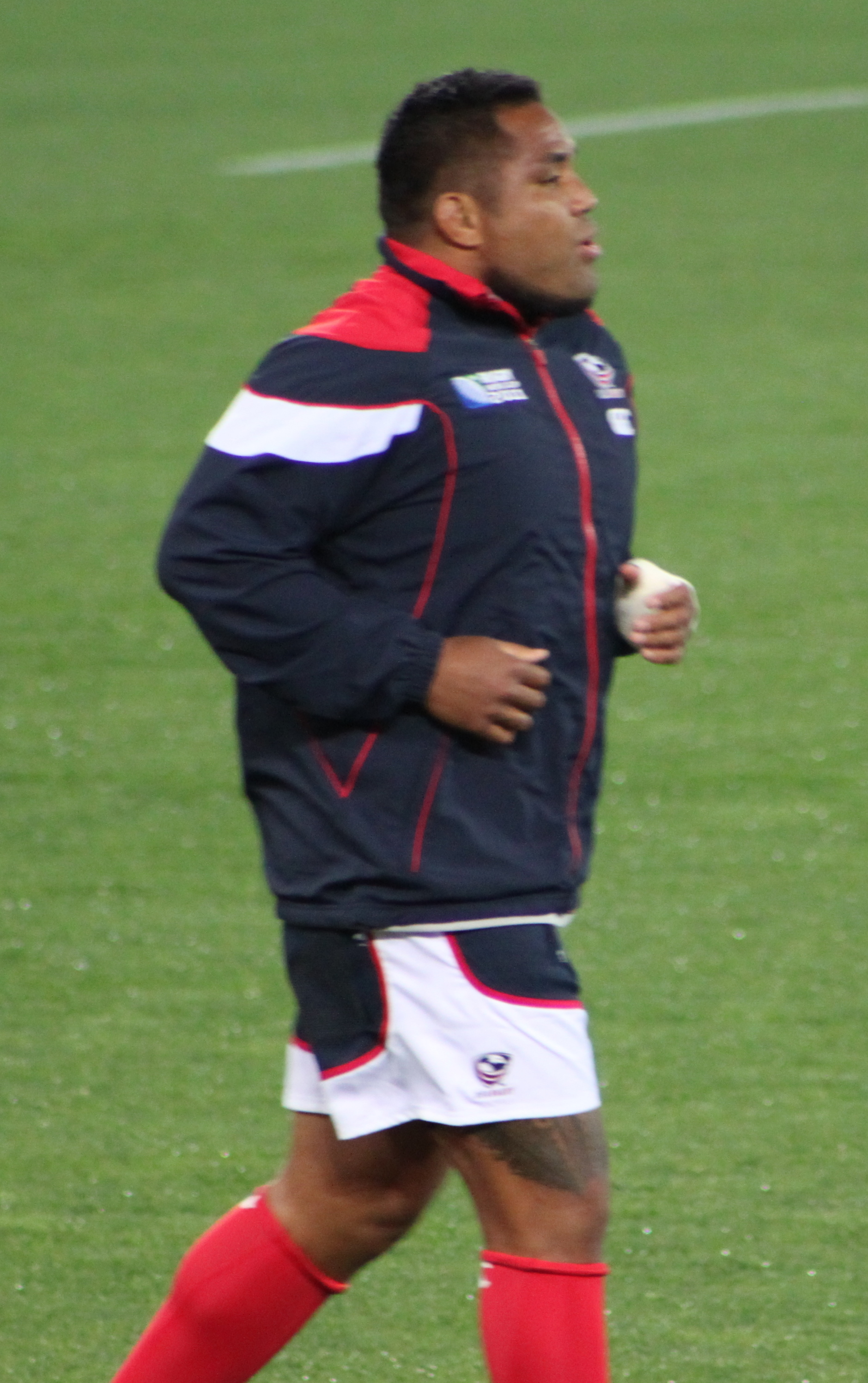 American rugby union player Matekitonga Moeakiola before World Cup match against Australia.